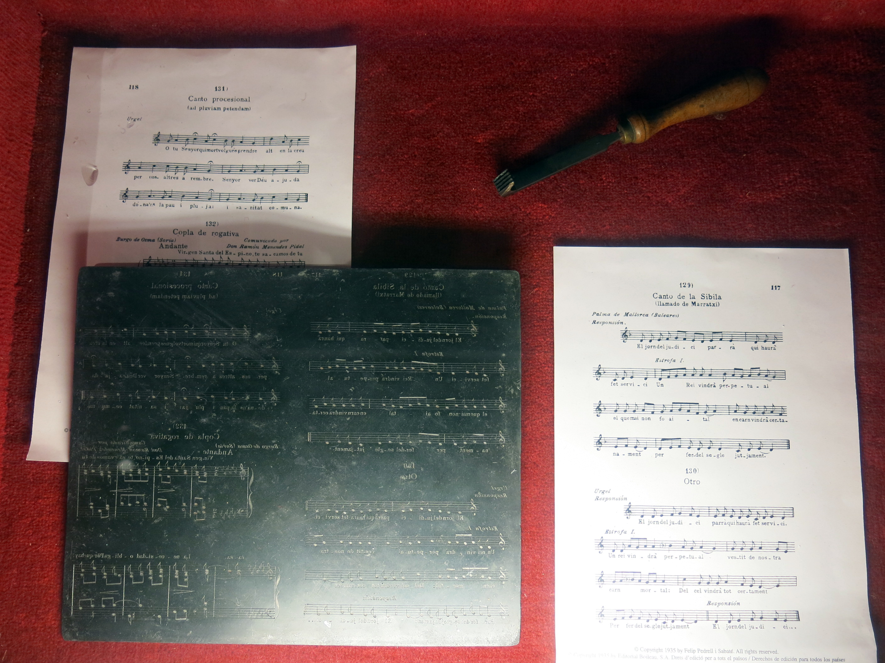 Printing plates for sheet music and editing tool for marking plates. Photographs taken during the Backstage Pass to the Music Museum in Barcelona on 21-11-2013